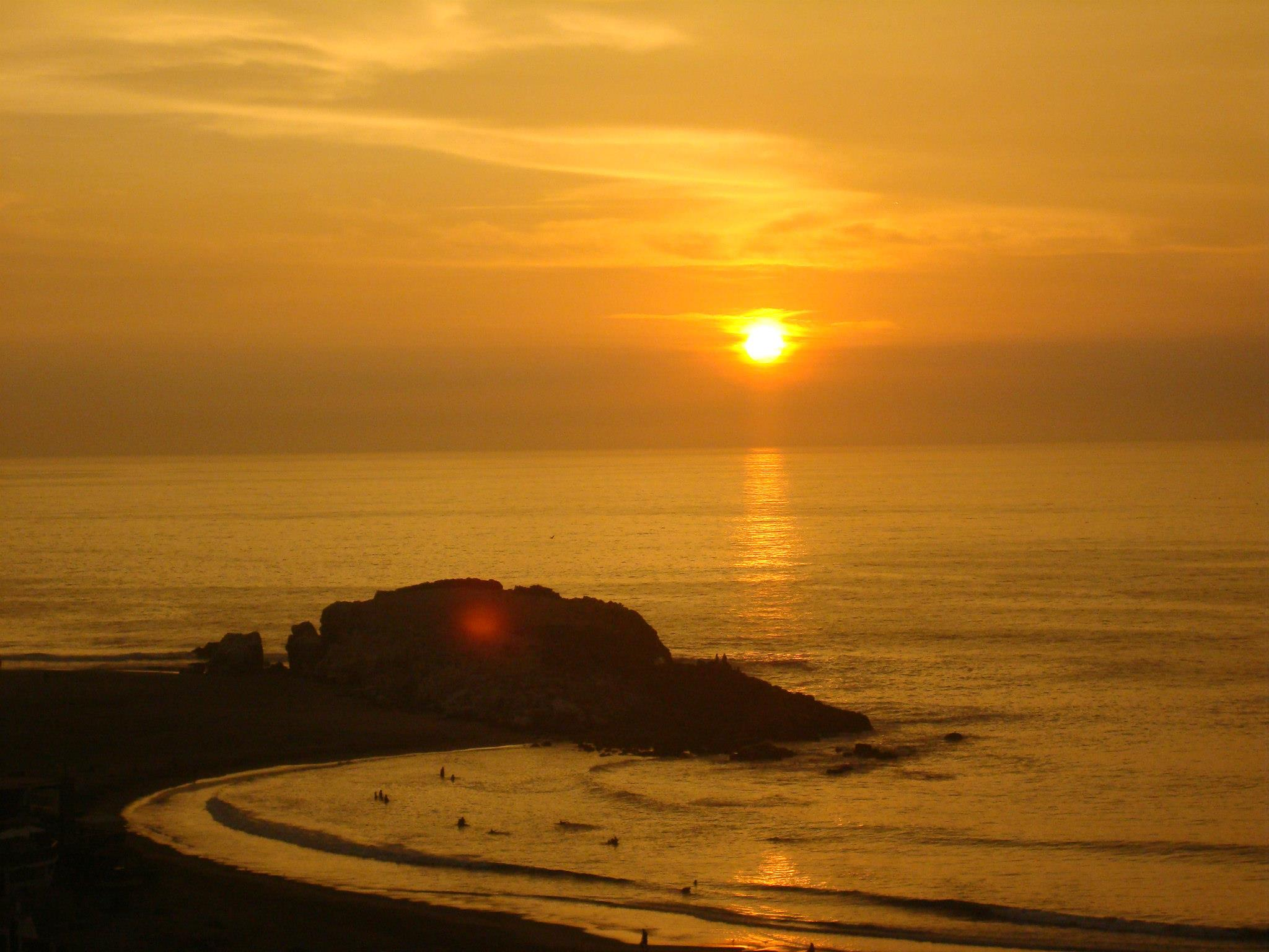 Puerto Fiel, Peru.